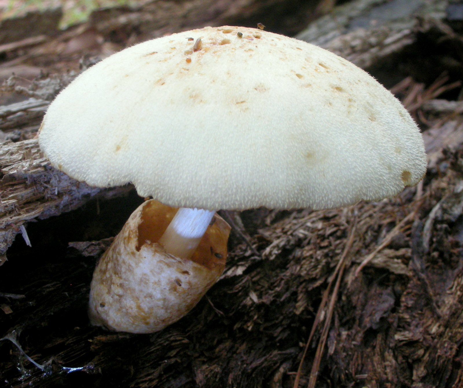 Volvariella bombycina (Schaeff.) Singer Image location: Big Thicket, Hardin Co., Texas, USA Growing on old decayed log in mixed woods. Spores ~ 7.1-8.3 X 5.0-5.9 microns, ellipsoid and smooth. Recognized by sight For more information about this, see the observation page at Mushroom Observer.